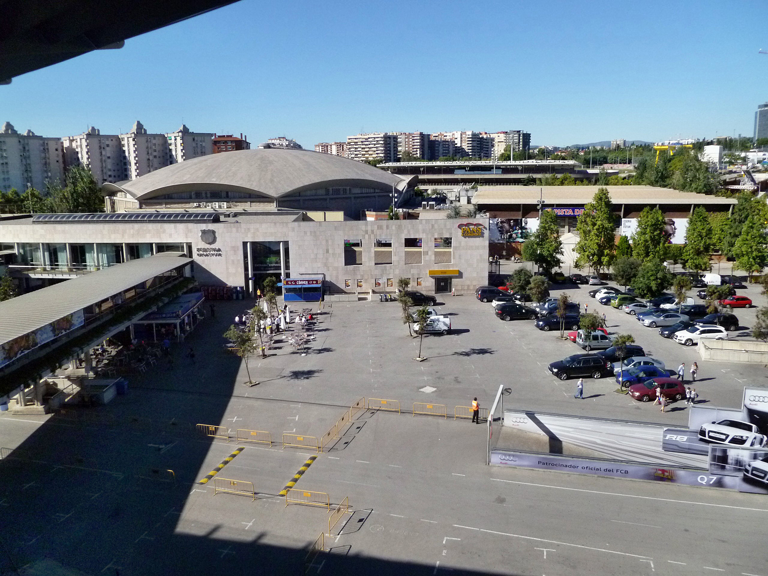 The sports arena Palau Blaugrana of FC Barcelona in Barcelona at Camp Nou, Barcelona, Catalonia, Spain